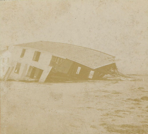 The destroyed Cobb's Island Hotel on the Virginia Barrier Islands after a hurricane in October 1896.